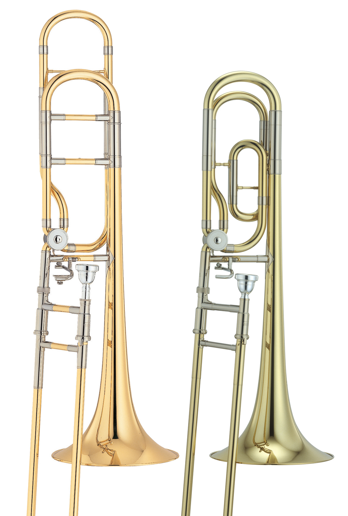 Comparison between the F attachments of a YSL-882OR trombone (open wrap, left) and a YSL-620 trombone (traditional wrap, right).